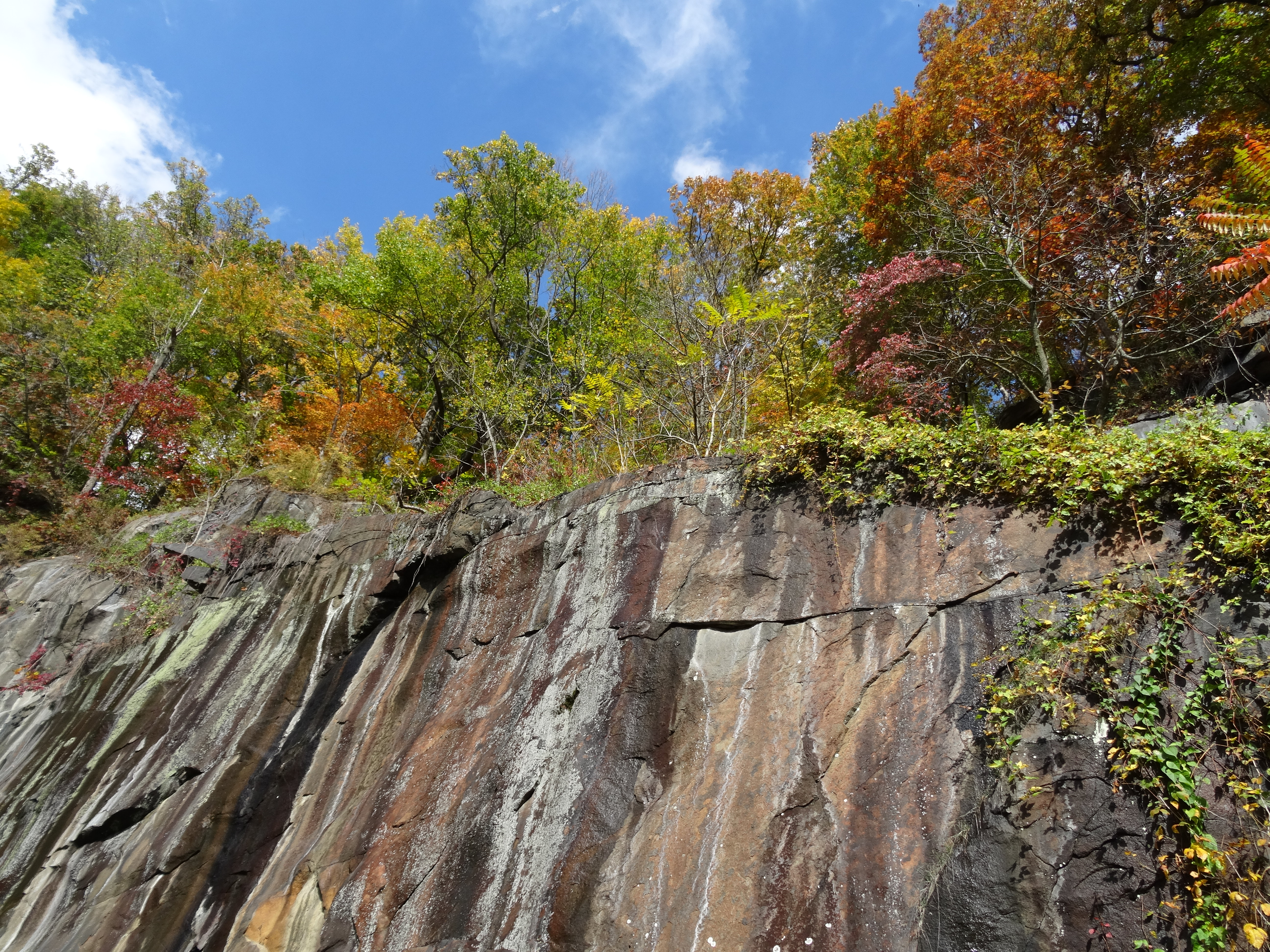 View of the quarry in Alapocas Run State Park.